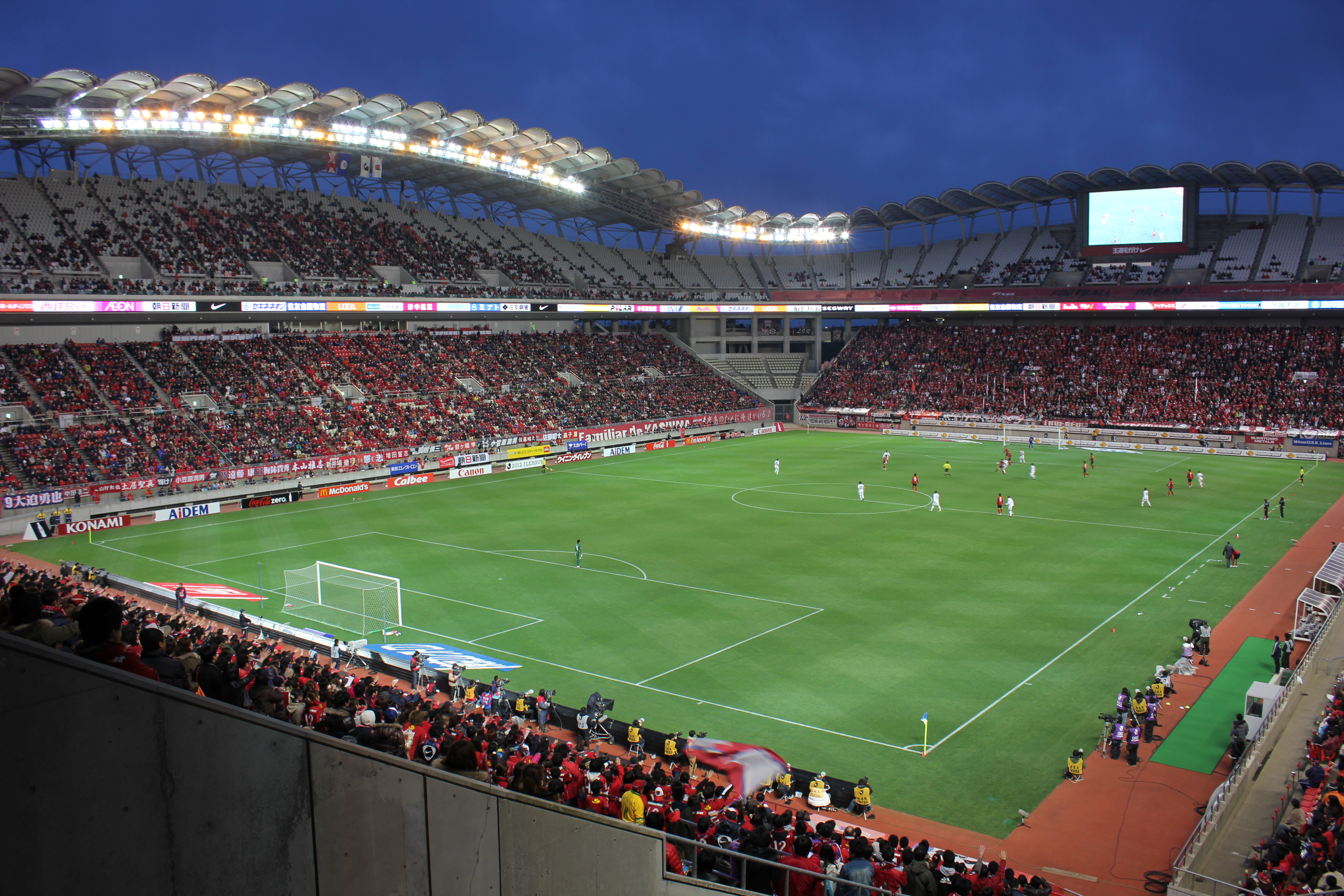 Kashima Soccer Stadium